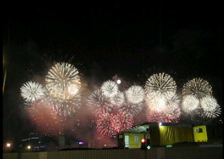 HKSAR's 10th anniversary fireworks display